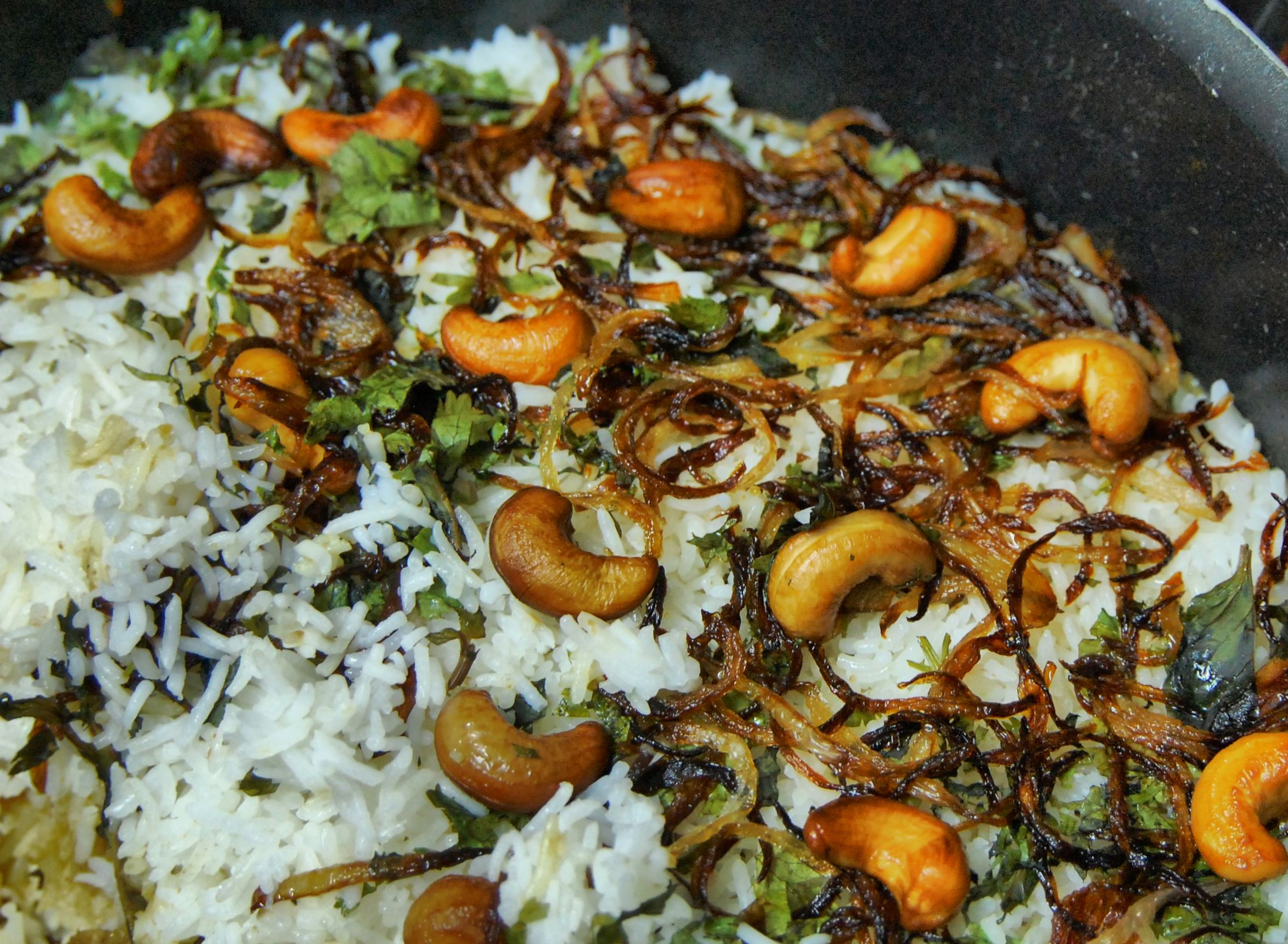 Biriyani